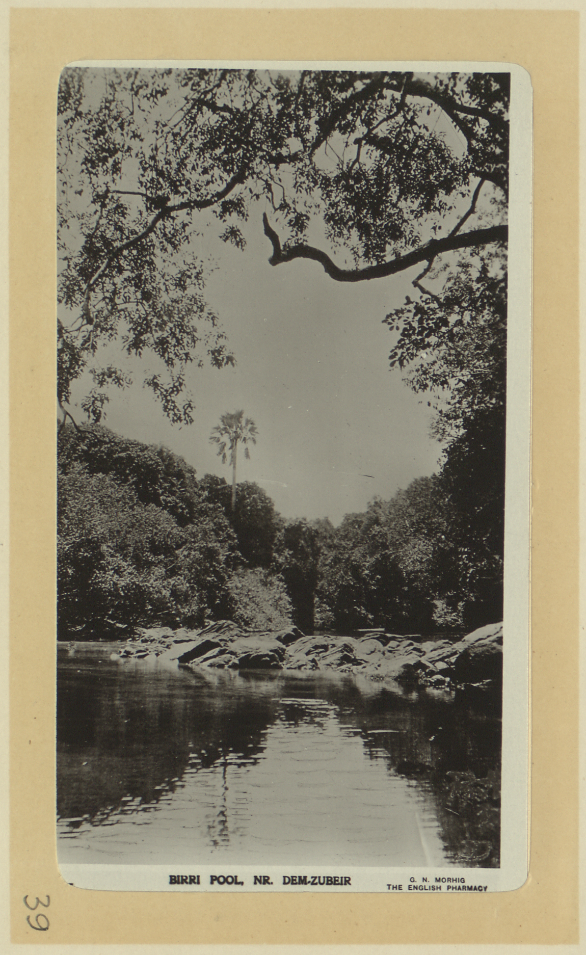 Vintage Sudan postcard, printed caption reads: "Birri Pool, Near Dem-Zubeir. Published by G N Morhig, The English Pharmacy, Khartoum"